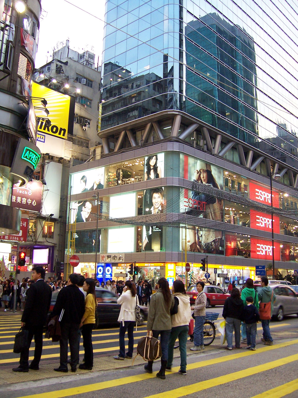 Mong Kok nightlife. Taken by Enoch Lau on 29 December 2005. As a courtesy, please let me know if you alter this image or this image description page. Original filename was 100_0855.JPG.